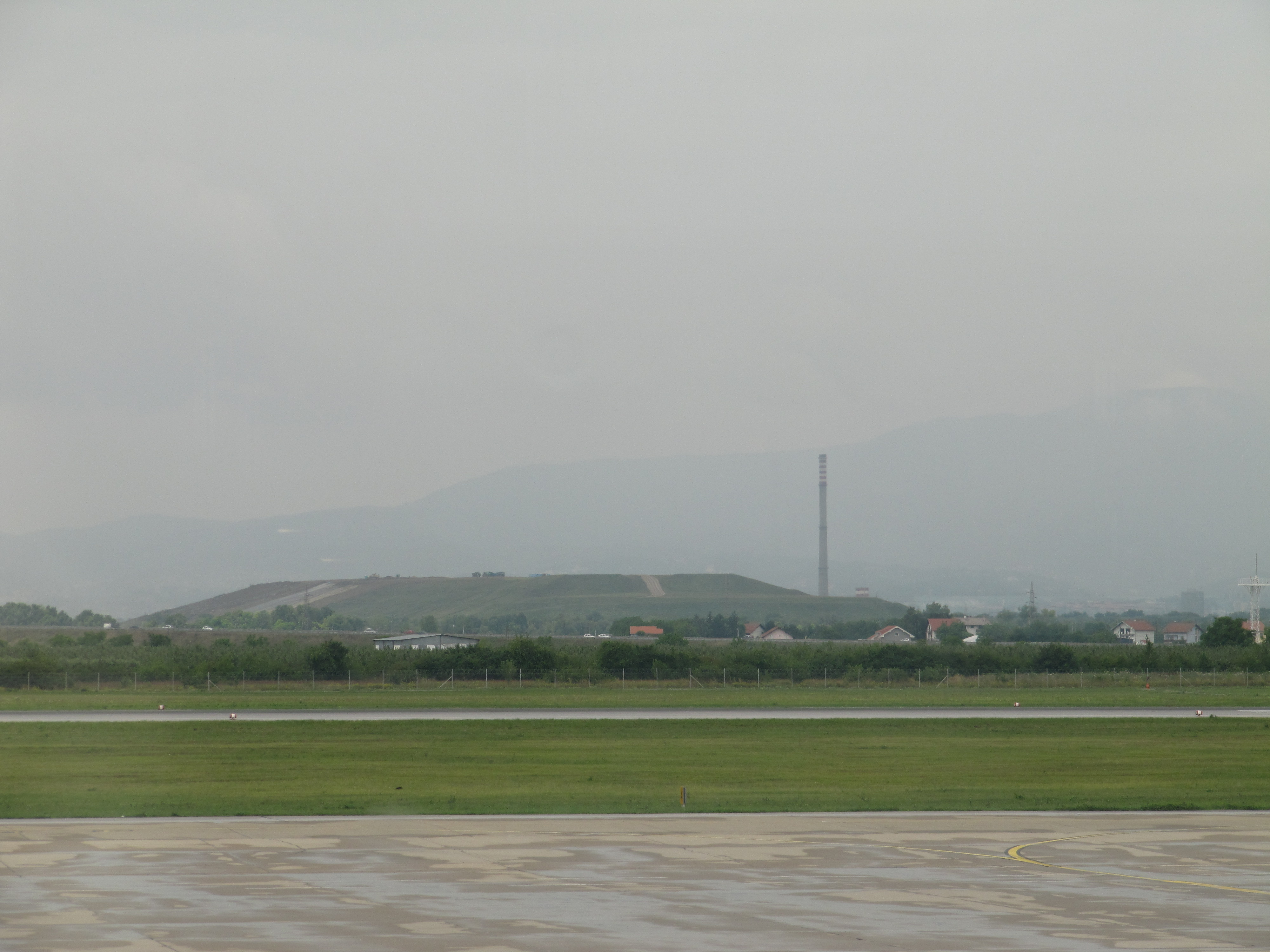 Jakuševec landfill seen from the Zagreb Airport.